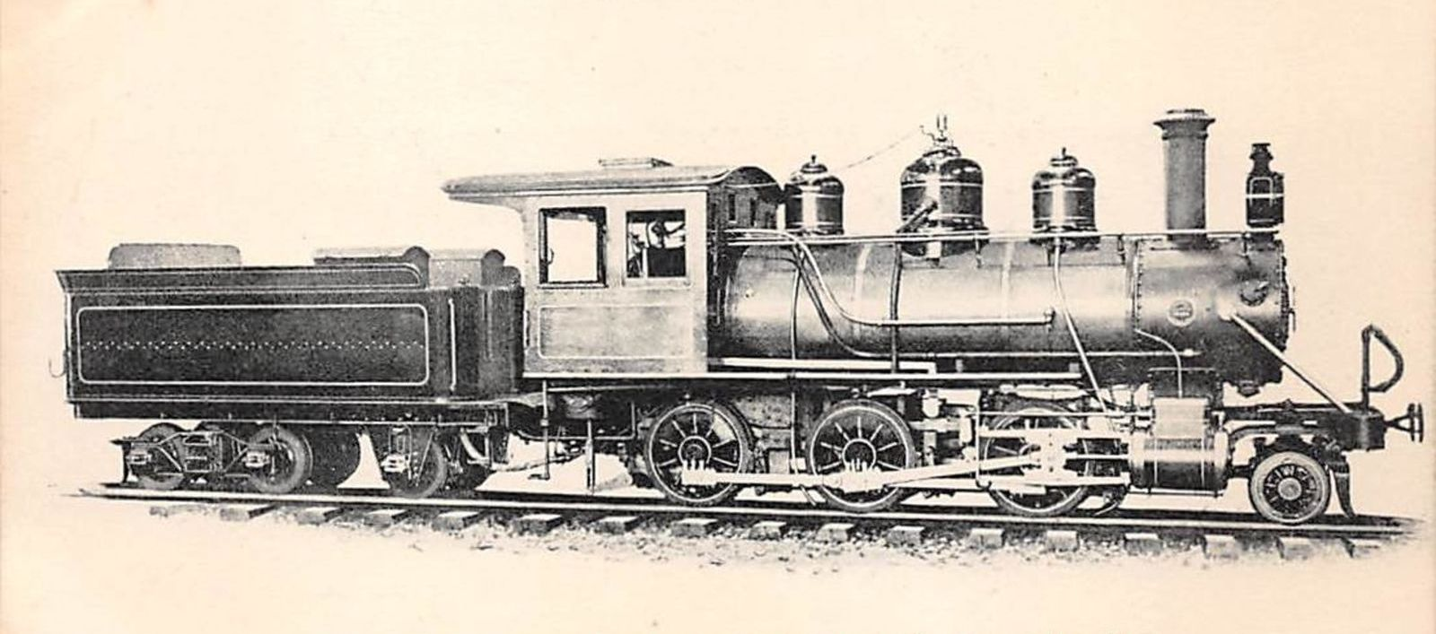 Natal Government Railways Class I 2-6-0 locomotive originally ordered by Zululand Railways in 1902. They were taken onto the NGR roster in 1903. Two such locomotivces were built and continued in service until 1928 and 1930 respectively. The images themselves are taken from post cards printed by the French firm Fleury at some time before the First World War.